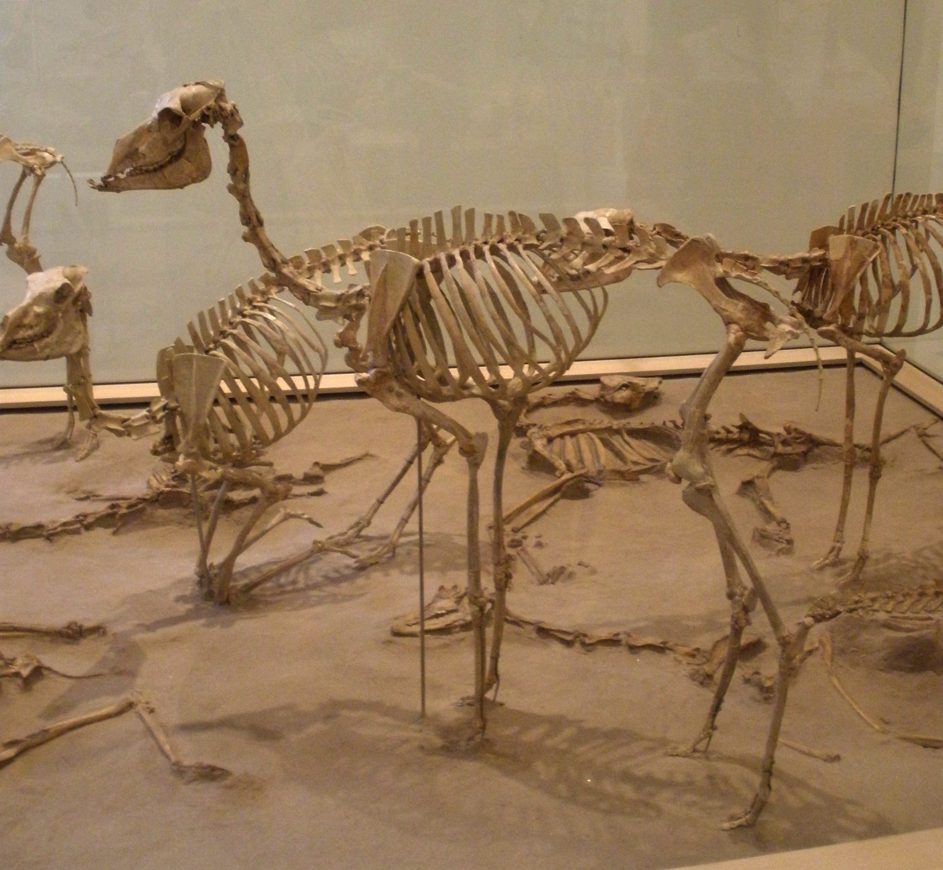 fossil of Stenomylus, an extinct camel